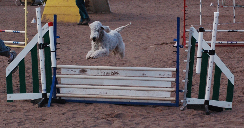 Bedlington Terrier Boardwalk's Luna Moon handled by Christine Brew; AKC agility trial in Filmore, CA